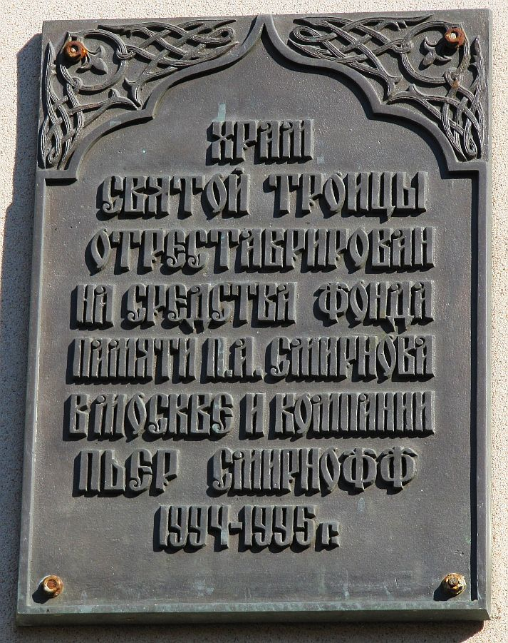 Holy Trinity Church in Piatnitskoe Cemetery, Moscow. The building was built in 1830-1835 by architect Afanasy Grigoriev. In 1994-195 it has renovated by Pyotr Smirnov company.